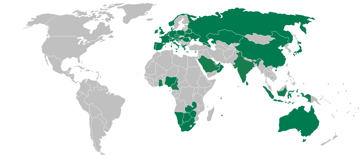 Spar stores worldwide.